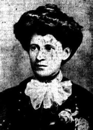 Photographic portrait of political activist Selina Siggins (at the time known as Selina Anderson)